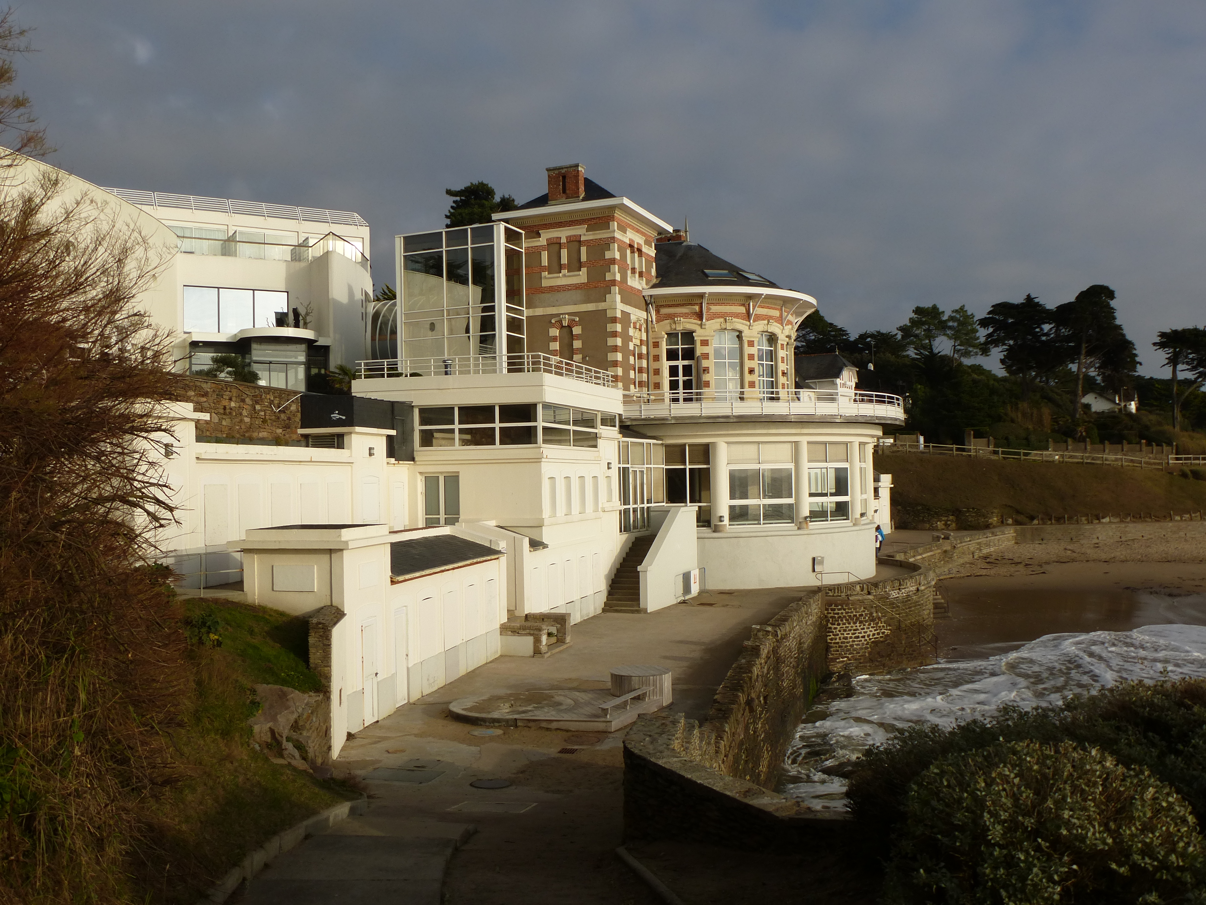 pornic , la thalasso